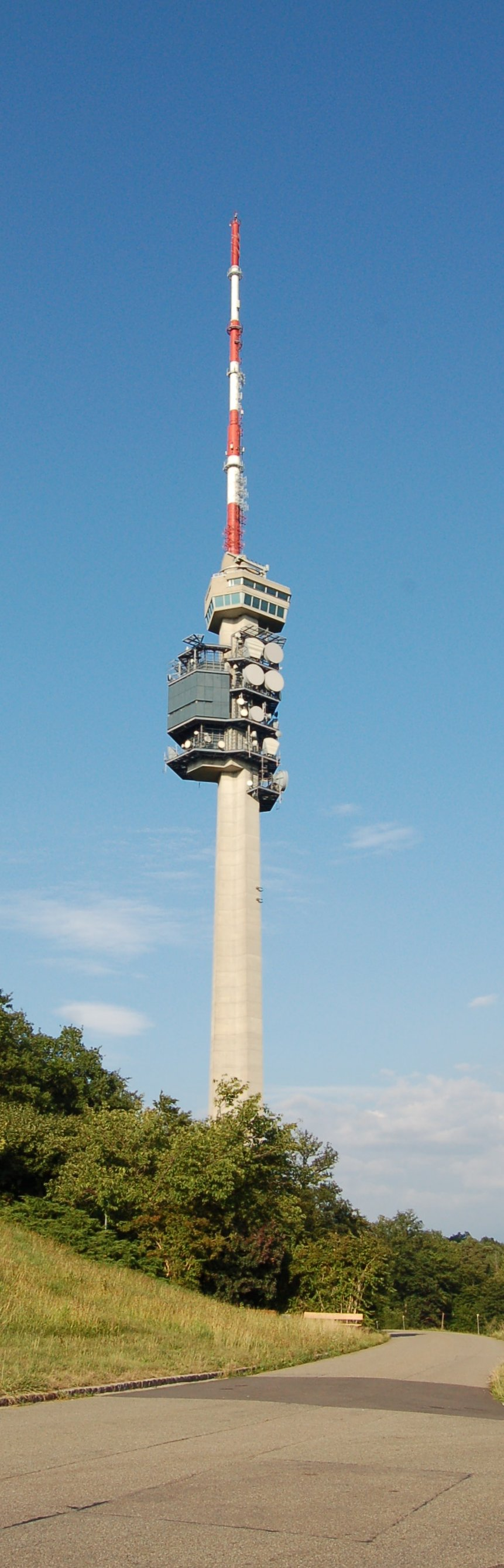 Television Tower St. Chrischona, Switzerland